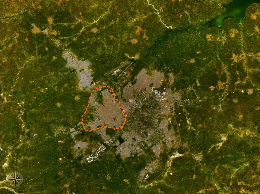 Satellite map of Kano, Nigeria, with the city wall